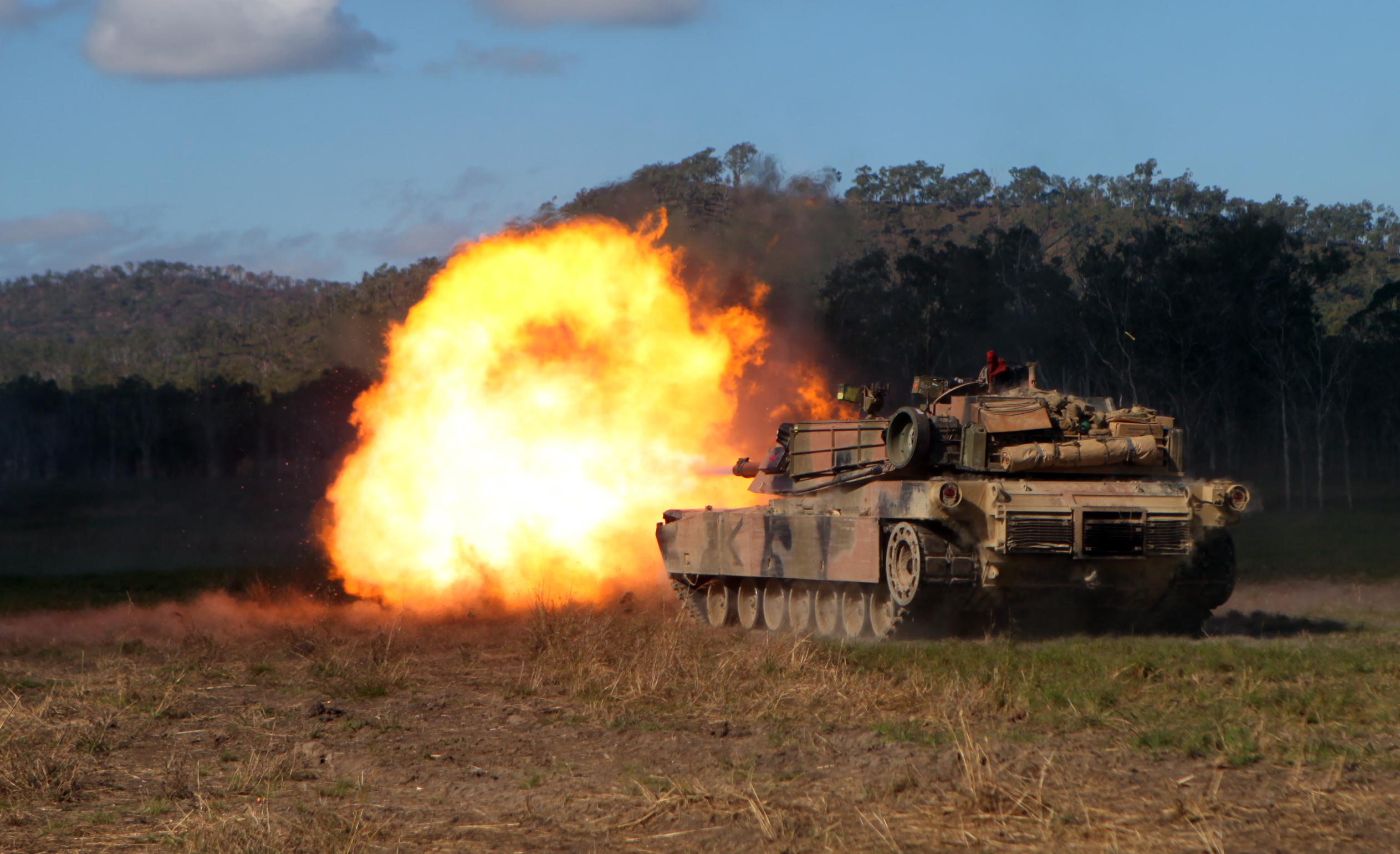 An Australian M1A1 Abrams Main Battle Tank, fires a round during a live-fire training exercise, July 28. The Australians were firing with Marines of the 31st Marine Expeditionary Unit during exercise Talisman Sabre 2011. TS11 is the largest joint military exercise undertaken by the Australian Defence Force. Around 14,000 U.S. and 9,000 Australian personnel have participated. TS11 provides an opportunity to conduct operations in a combined and joint environment that will increase both countries' bilateral war-fighting capabilities to respond to crisis and to provide humanitarian assistance. The 31st MEU is the only continuously forward-deployed MEU and remains the nation's force in readiness in the Asia-Pacific region.